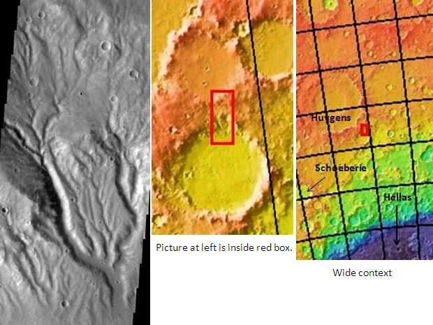 Branched valleys in Huygens, as seen with themis. The location is 17.9 degrees south latitude and 300.7 degrees west longitude. Picture taken with Mars Odyssey's THEMIS. Photo credit NASA/JPL/ASU.